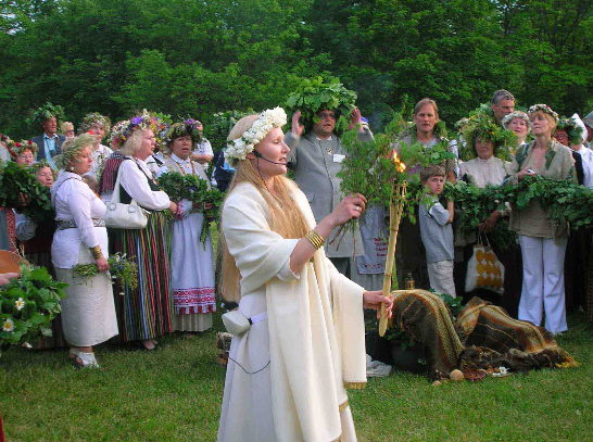 Rodnover ceremony in Poland.